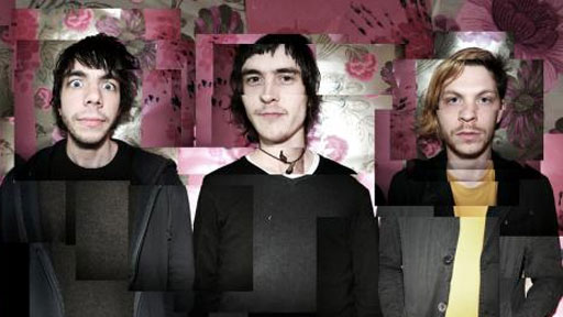 Photo of Mojo Fury